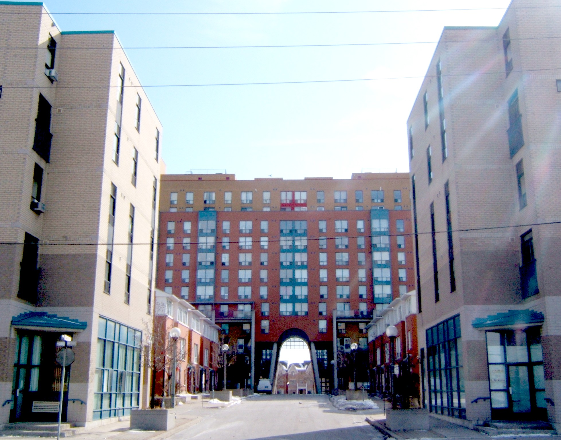 Residential Development at former Good-year site, New Toronto